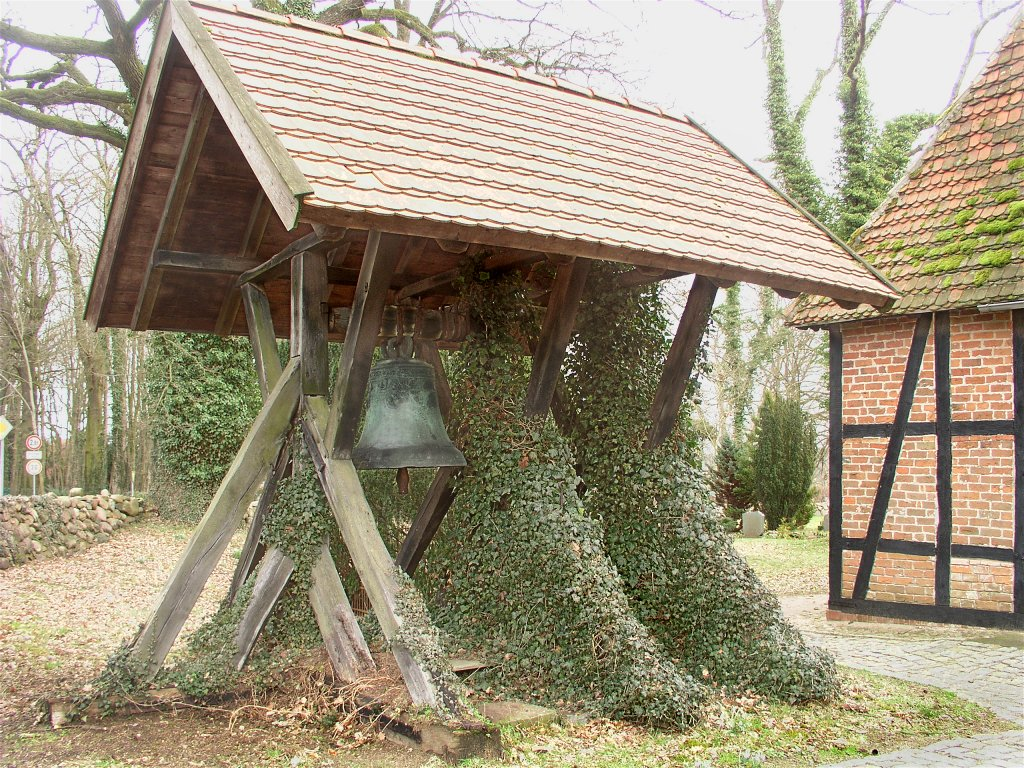 Belfry of the church of Consrade, Plate, Mecklenburg-Western Pomerania, Germany